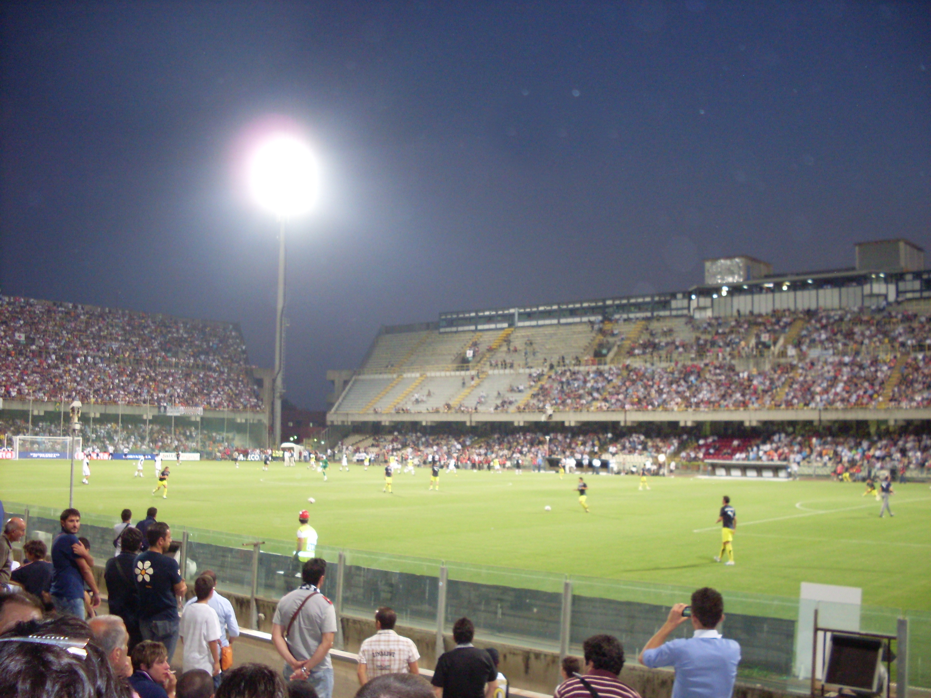 Internal view of Arechi Stadium in Salerno during the football friendly match Juventus-Villarreal played the 7th of August 2009